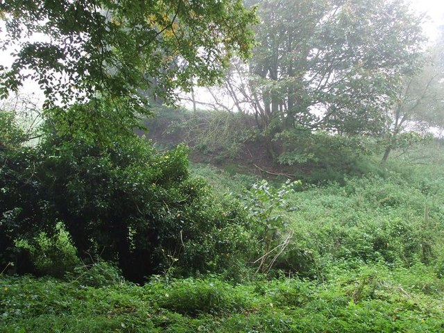 Bolebec Castle mound This is the mound of the ancient Bolebec Castle built originally by Hugh de Bolebec in the twelfth century. Part of the castle's old moat can be seen in 261788. This photograph was taken (appropriately enough) from Castle Lane near its junction with Weir Lane. More information on the castle can be found here